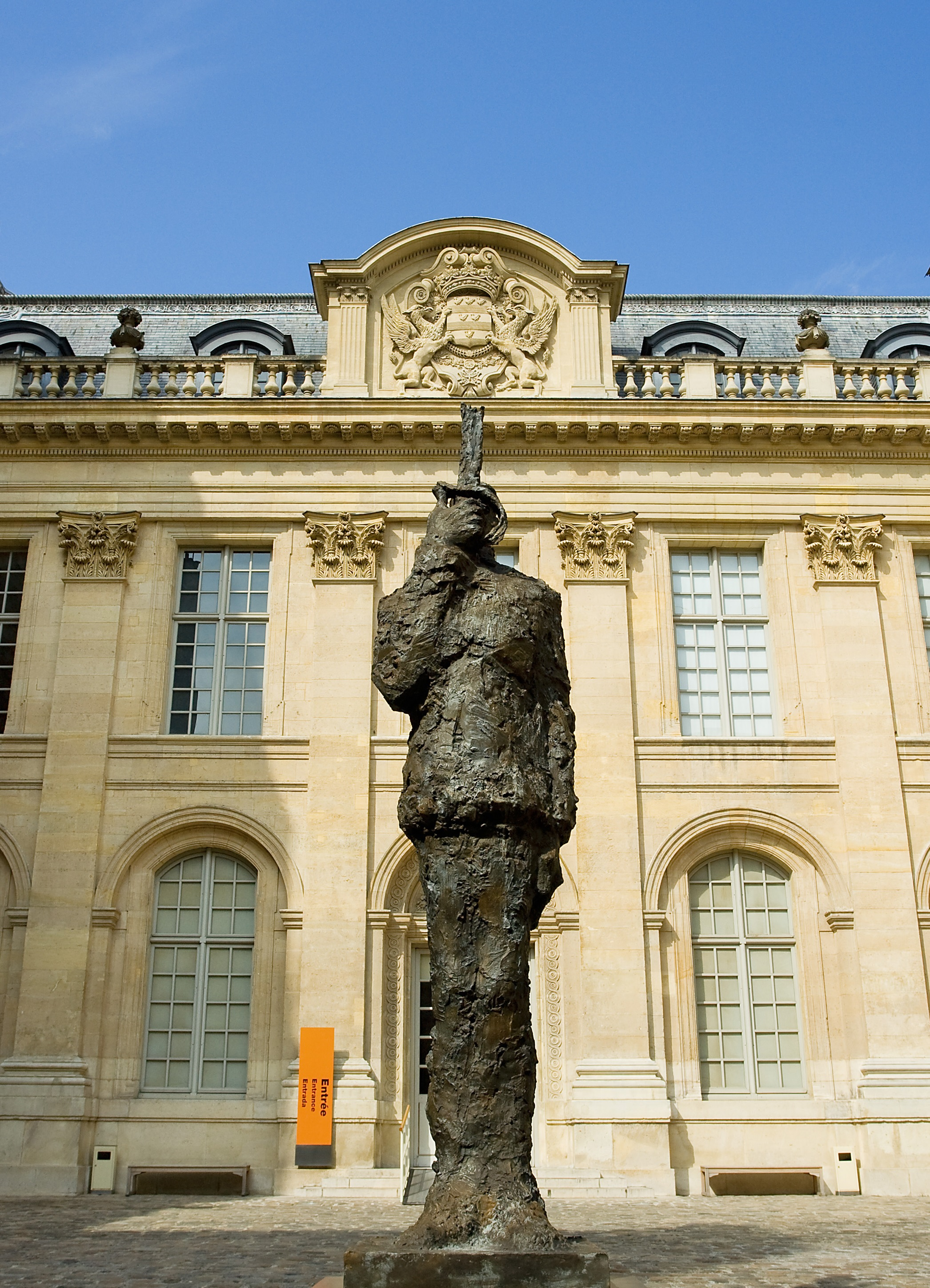 Museum of Jewish Art and History (Musée d'art et d'histoire du Judaïsme) - The statue of Captain Dreyfus © Sylvain Sonnet